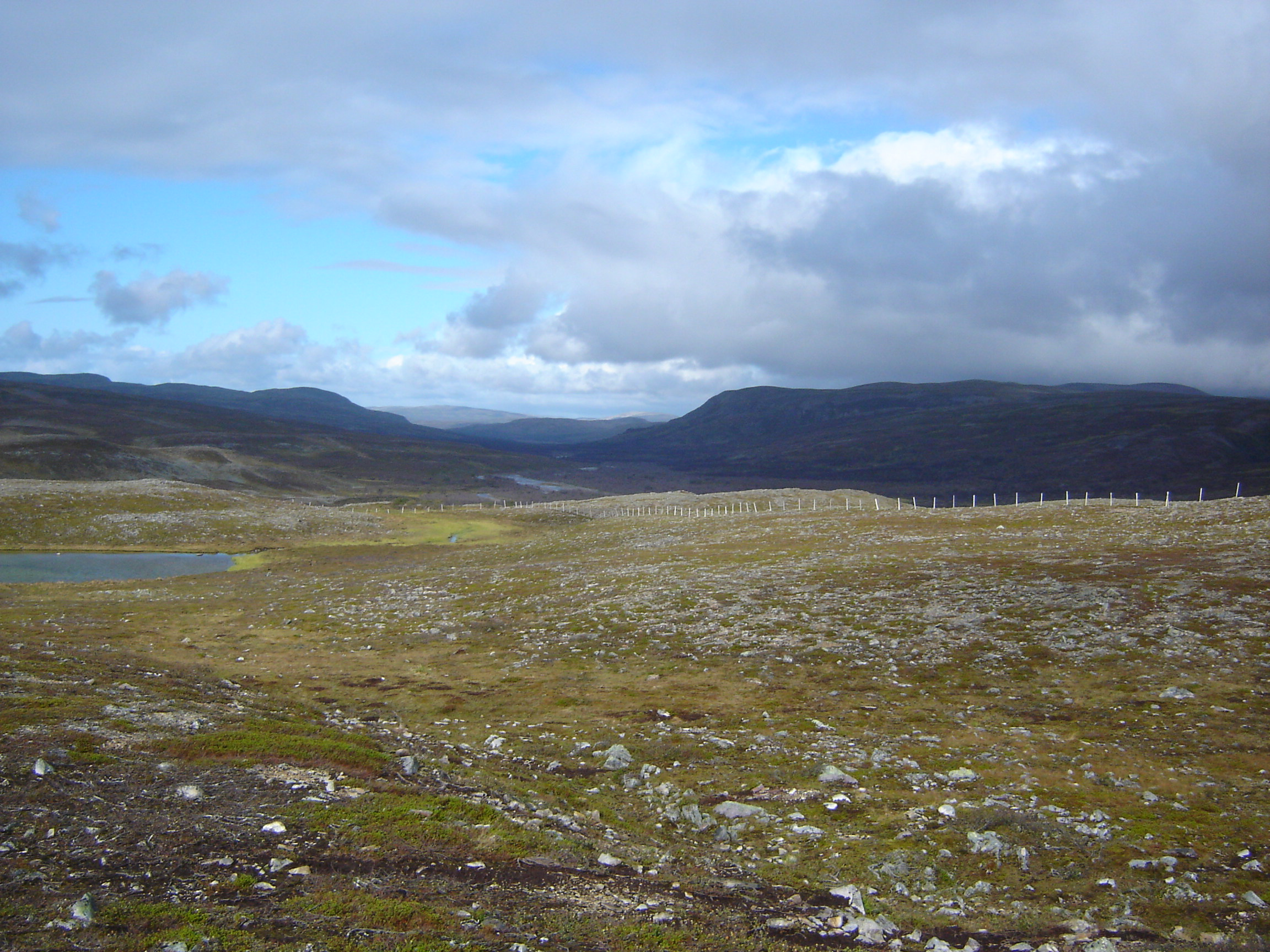 Ifjordfjellet, Lebesby municipality, Finnmark, Norway